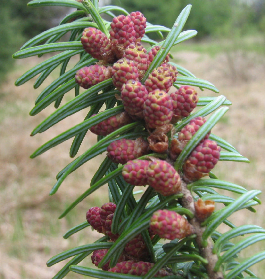 Abies balsamea pollen cones.